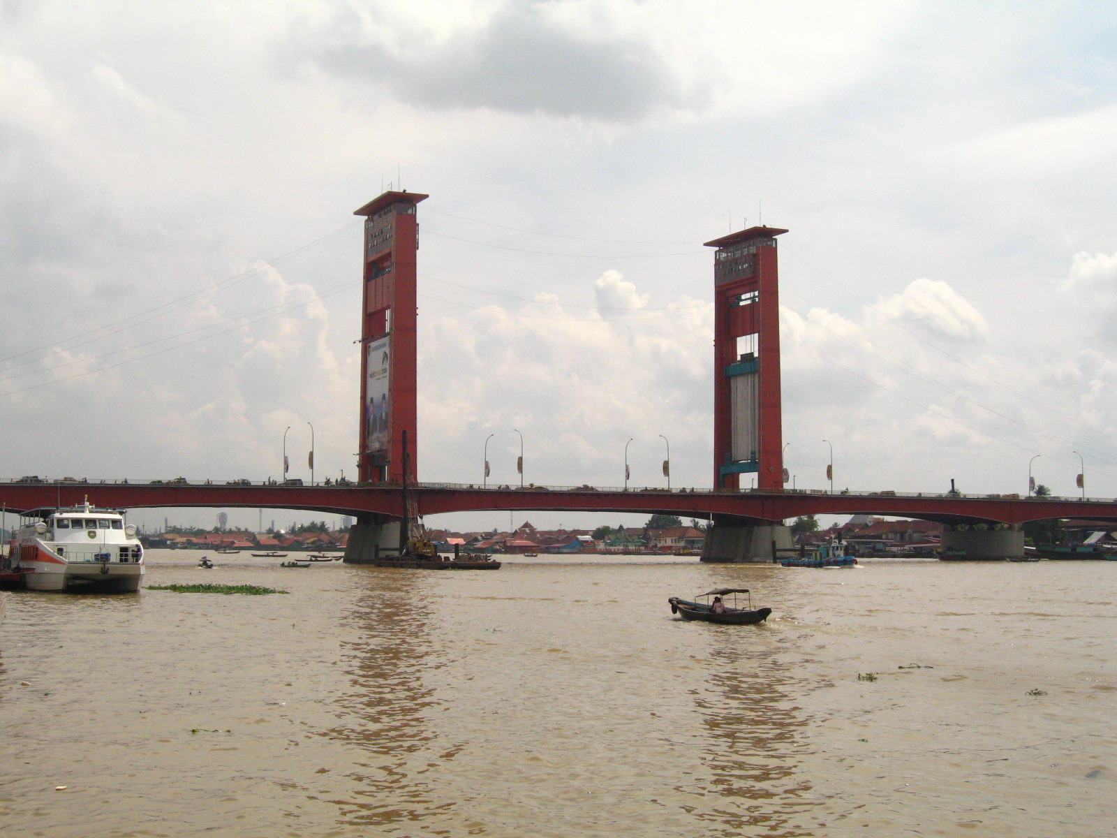 Ampera bridge over the Musi River (Indonesia)